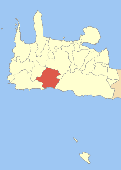 Locator map of Anatoliko Selino municipality (Δήμος Ανατολικού Σελίνου) in Chania prefecture (Νομός Χανίων) in Greece.